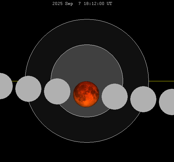 September 2025 lunar eclipse chart of moon's total lunar eclipse path through the earth's shadow. thumb